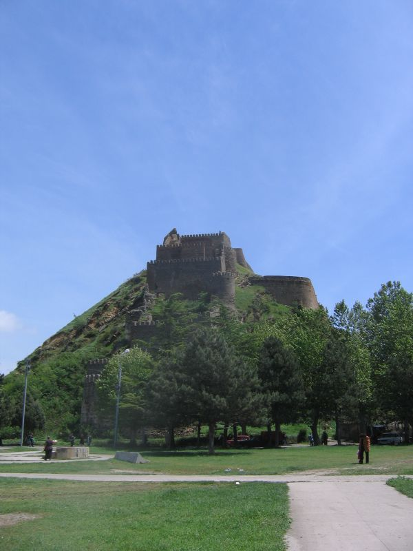 Goris-Tsikhe